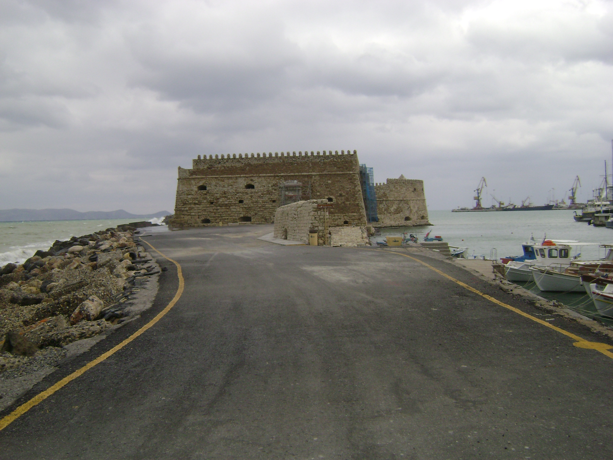 Castle on the coast of Heraklion